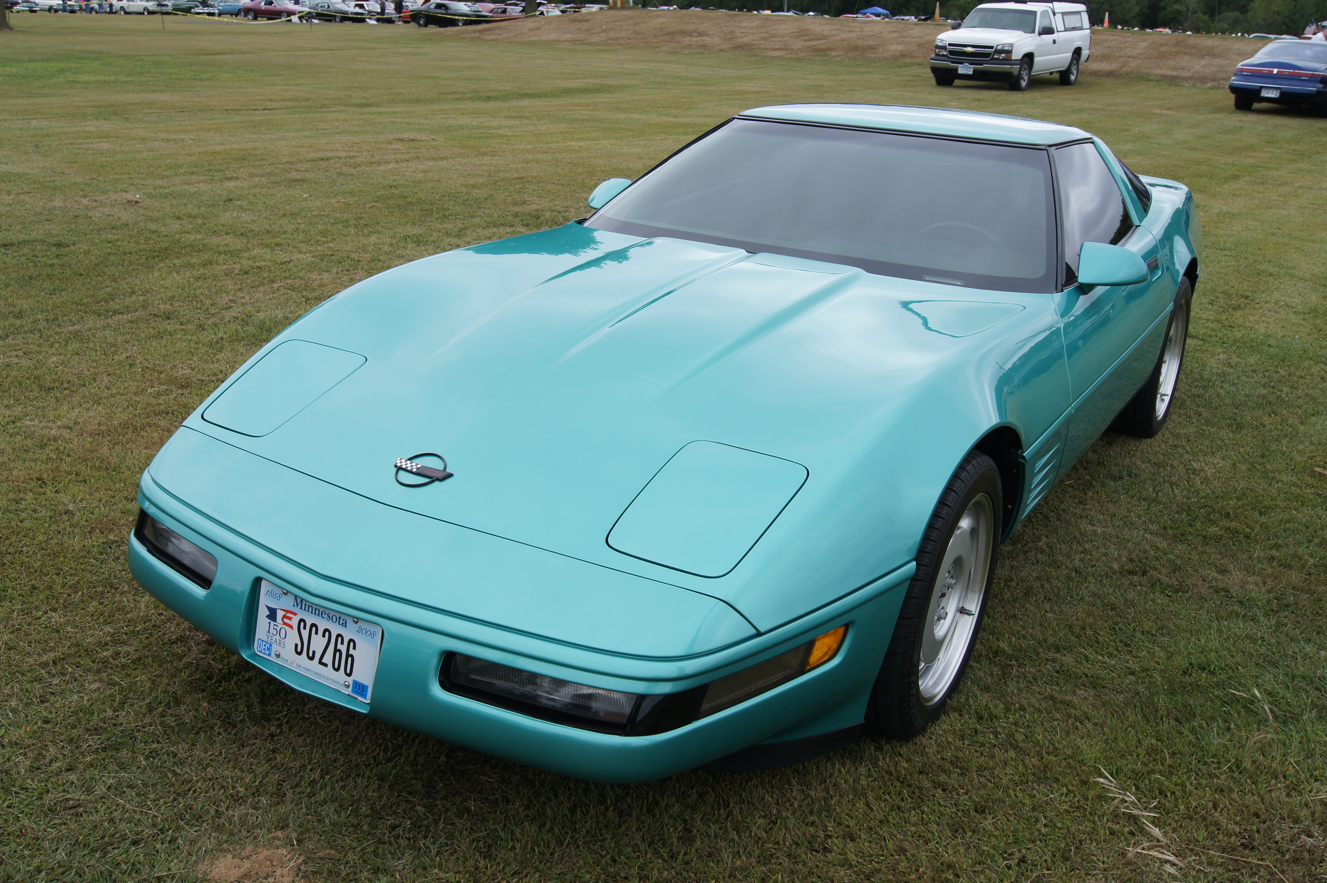 North Star Chapter Studebaker Drivers Club 13th Annual Labor Day Car Show September 2, 2013 Blacksmith Lounge Hugo, MN